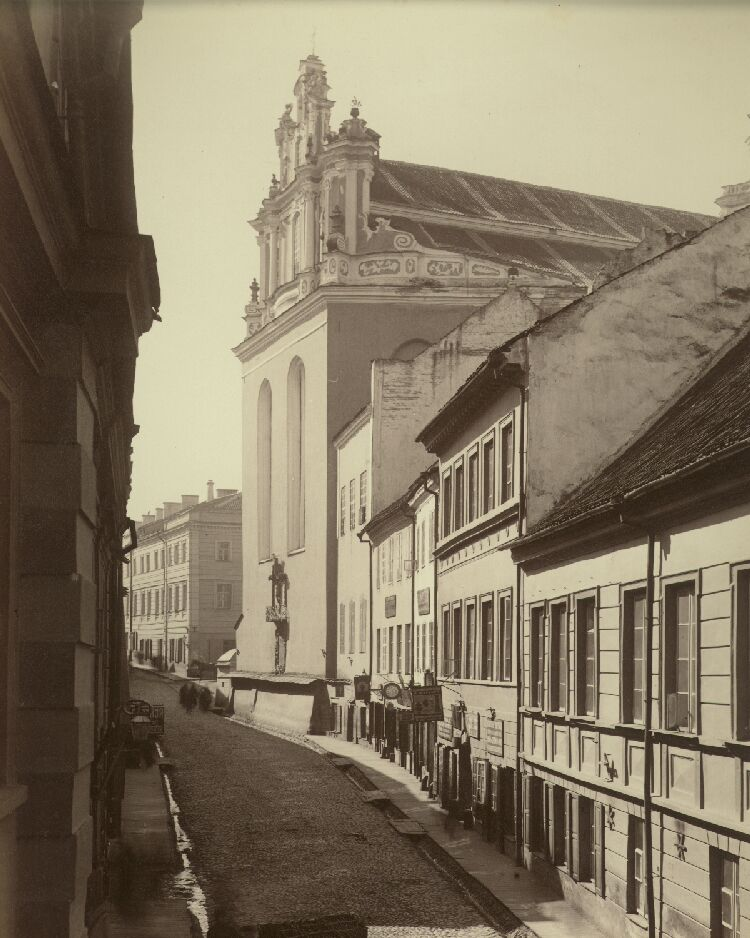 Castle (Pilies) street in Vilnius 1873-1881 2